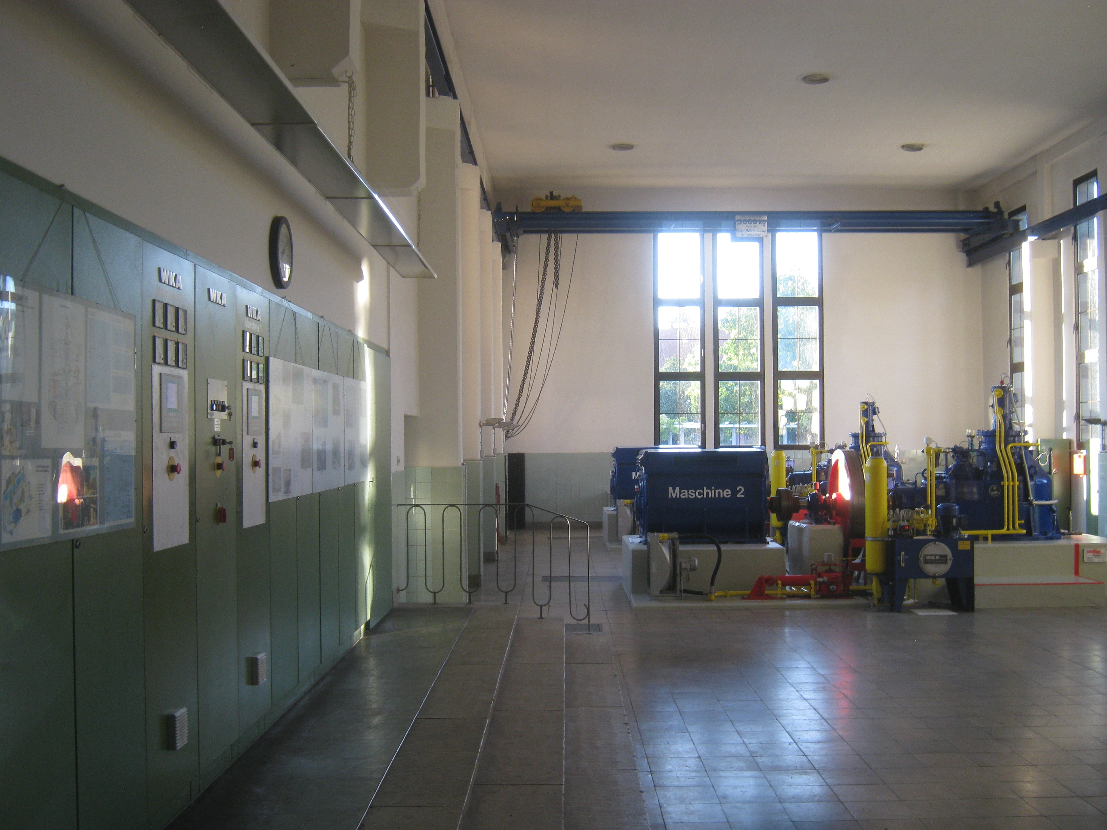 Machine room of Bietigheim Enz Power Station